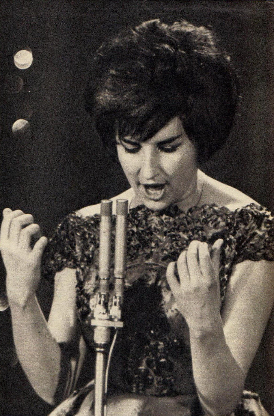 Italian singer Mina performinhg at the 1960 Sanremo Music Festival